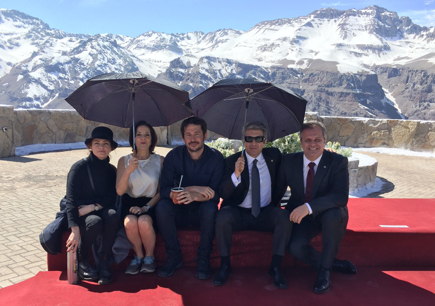 Filme a Cordilheira - Andes